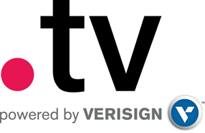 .tv domain name logo powered by Verisign